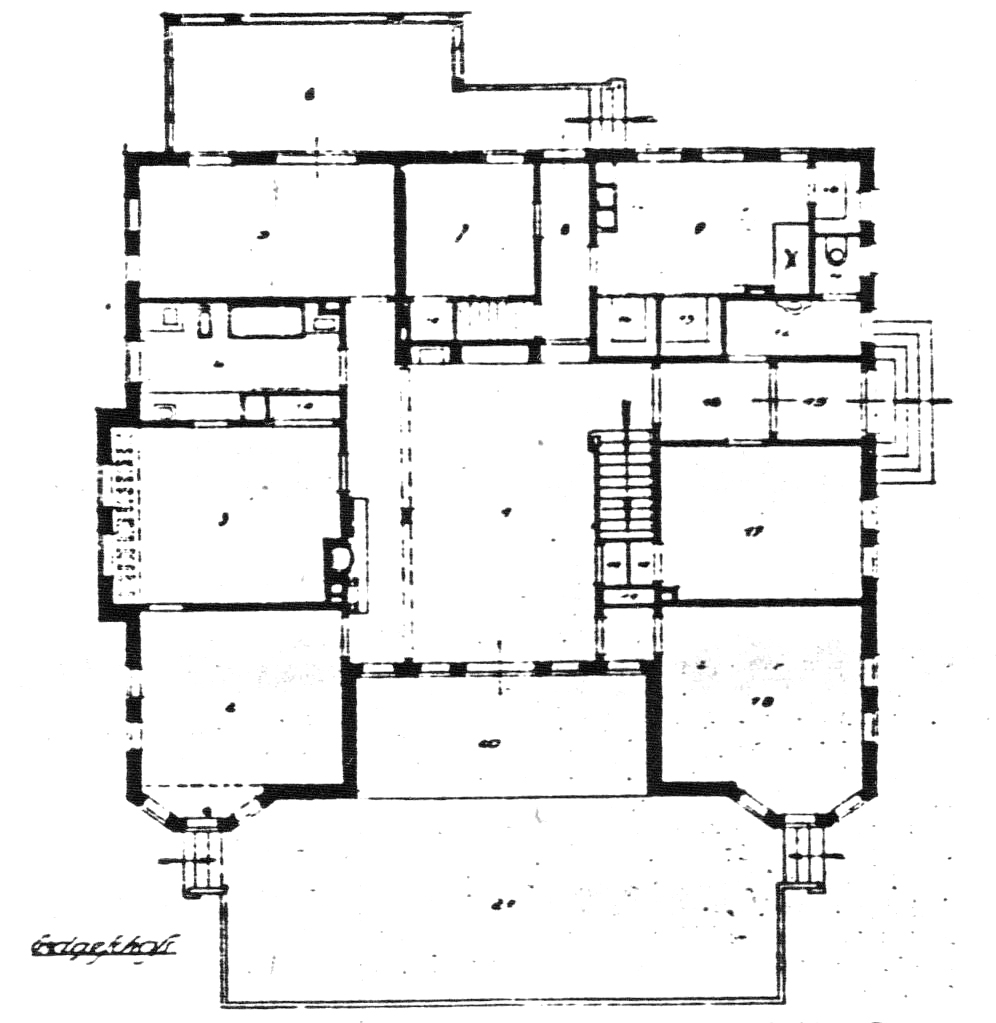 Former ground floor plan of thatched cottage Mahr, with the former veranda at the Northwest side. The house is a cultural heritage monument No. 911 in Hamburg, Germany